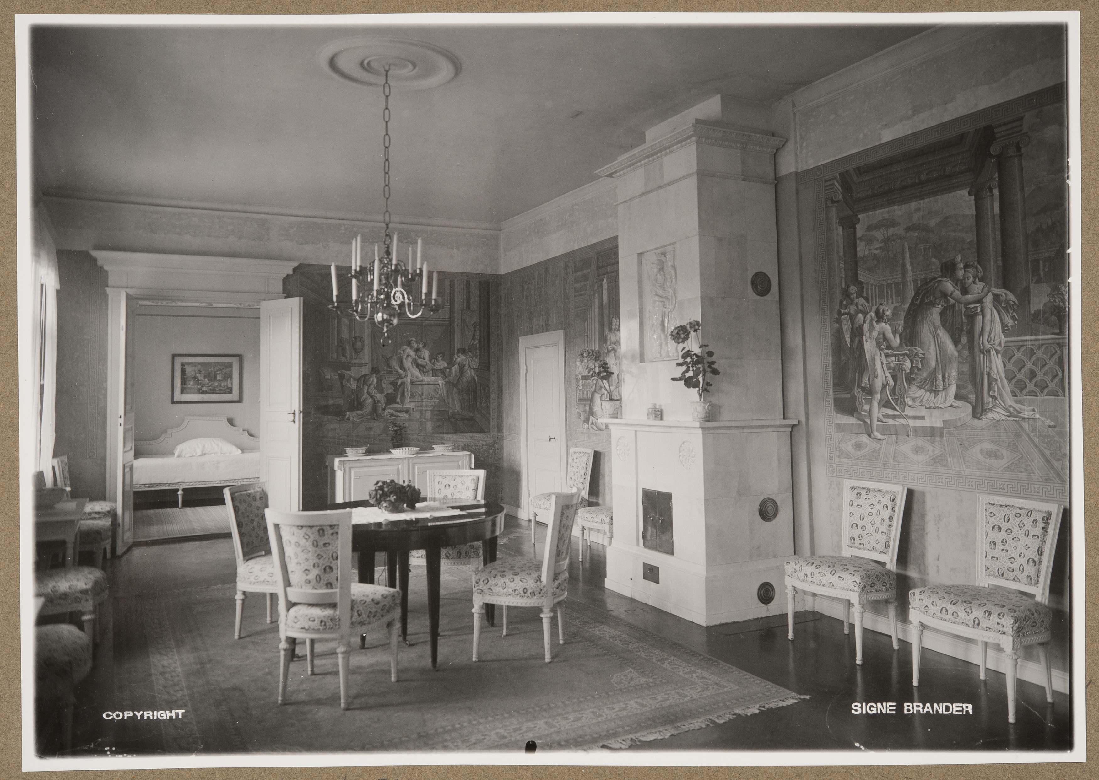 Interior of Königstedt Manor in Helsingin maalaiskunta (now Vantaa), Finland.